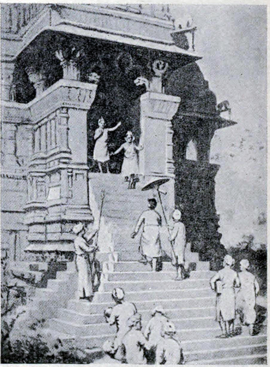 Kirtivarman Chandela visits the temple of Khajurahu. From Hutchinson's story of the nations, containing the Egyptians, the Chinese, India, the Babylonian nation, the Hittites, the Assyrians, the Phoenicians and the Carthaginians, the Phrygians, the Lydians, and other nations of Asia Minor.